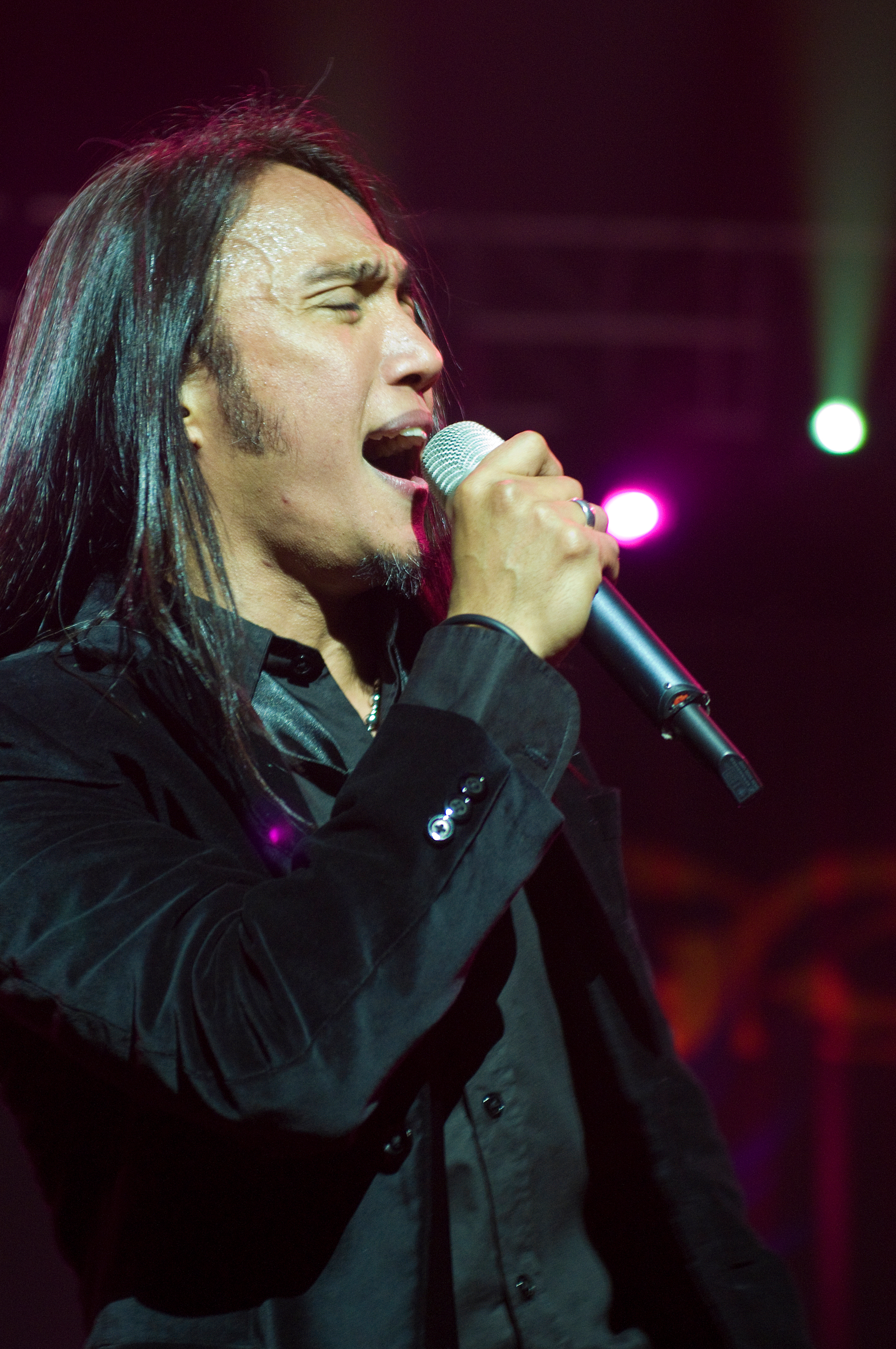 Arnel Pineda of Journey performing in Macau, 2009